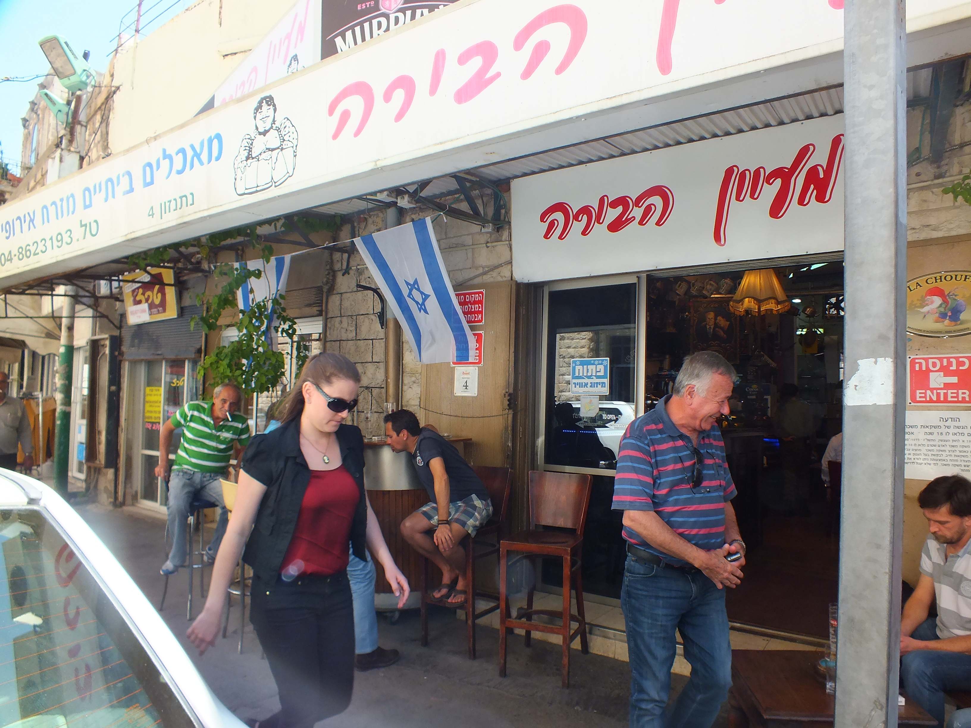 The sidewalk in front of the tavern, on a warm day.